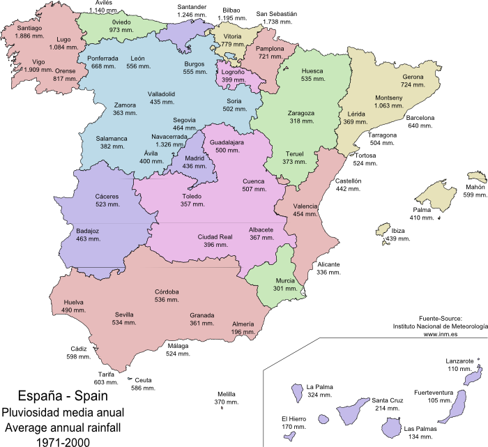 Spain - Average annual rainfall by cities (1971-2000)